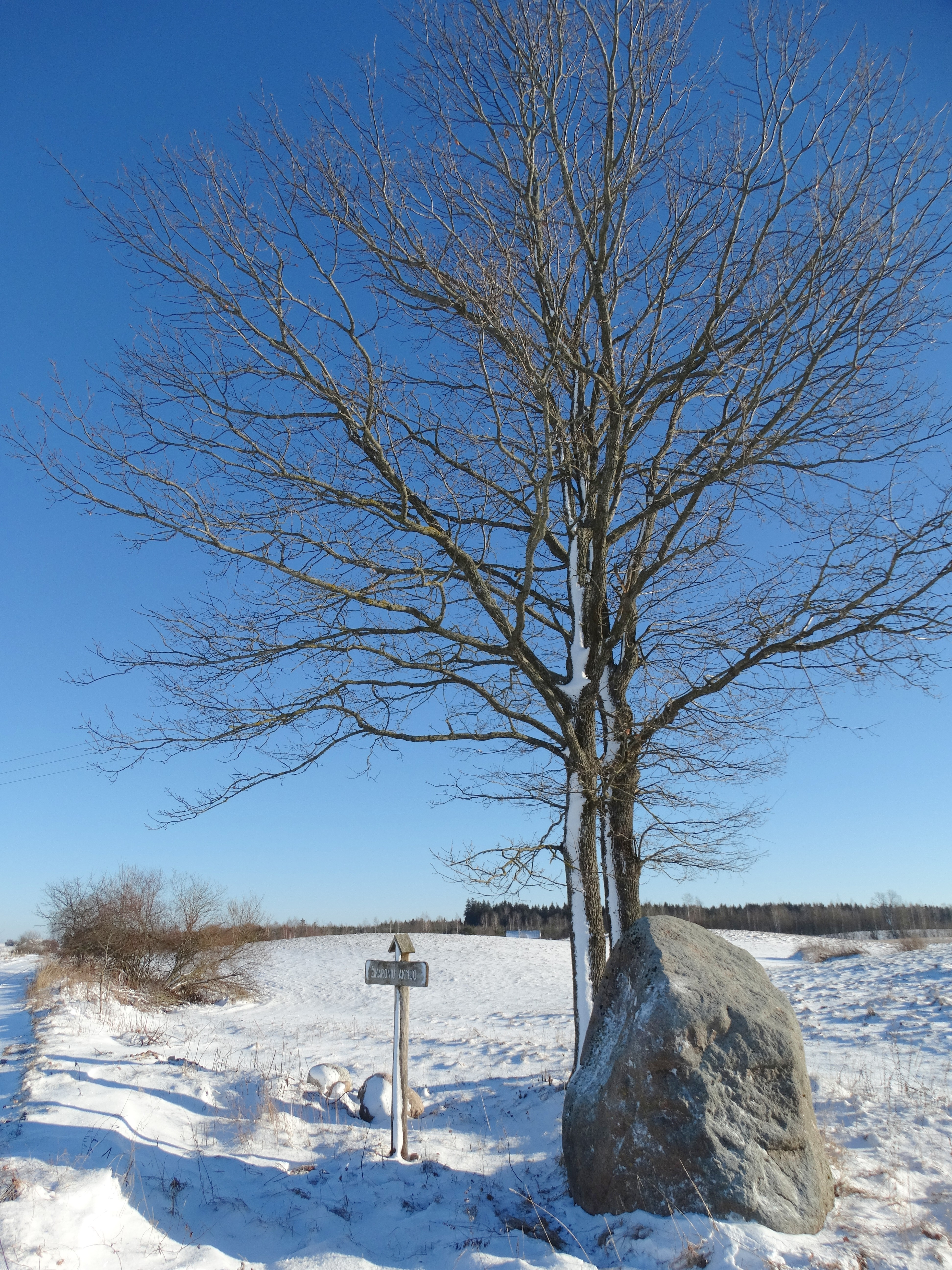 Stone, Žikaronys, Elektrėnai Municipality, Lithuania